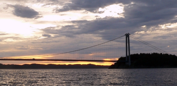 Bømlabrua, bridge to Bømlo, Sunnhordland, Norway. Part of Trekantsambandet. A smaller version of Image:Foyno.jpg. The original has been cropped, rotated, exposure and color adjusted. A black speck was digitally removed from the sky in the upper right corner.